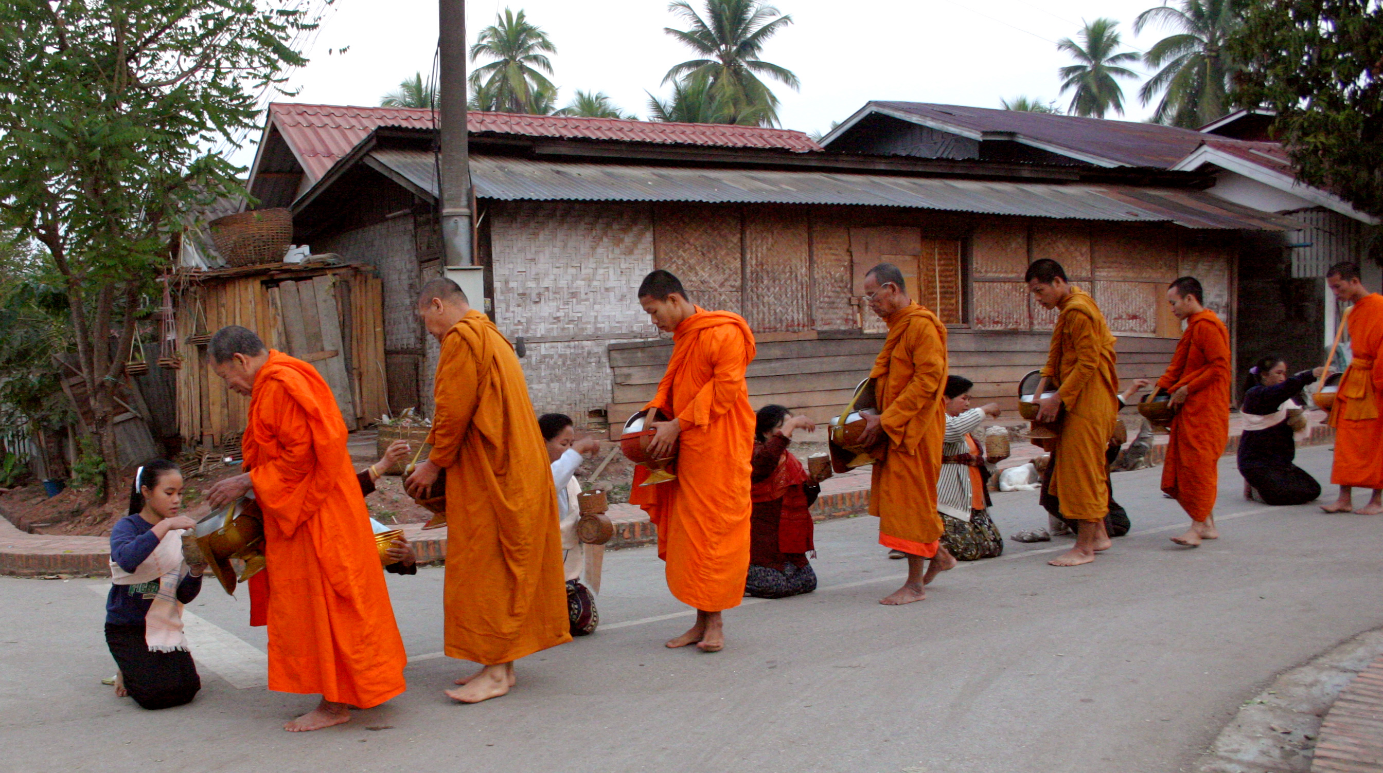 Monks collecting alms in Luang Prabang in Laos